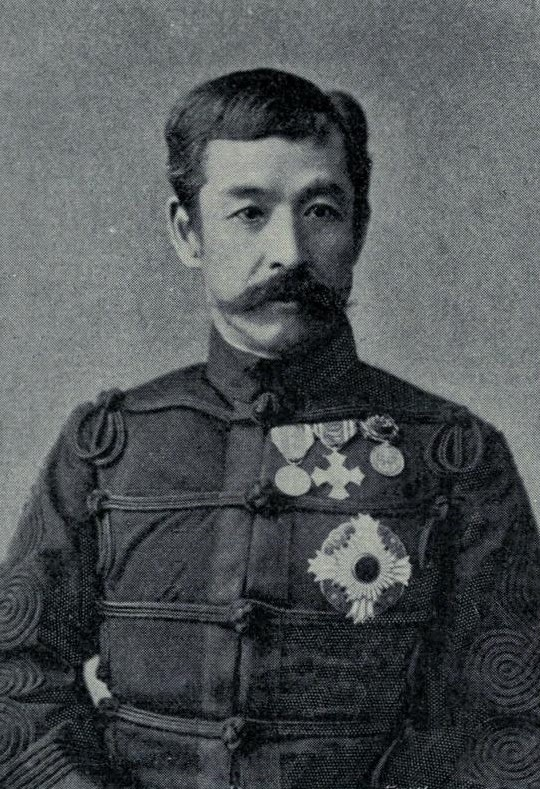 Prince Kitashirakawa Yoshihisa